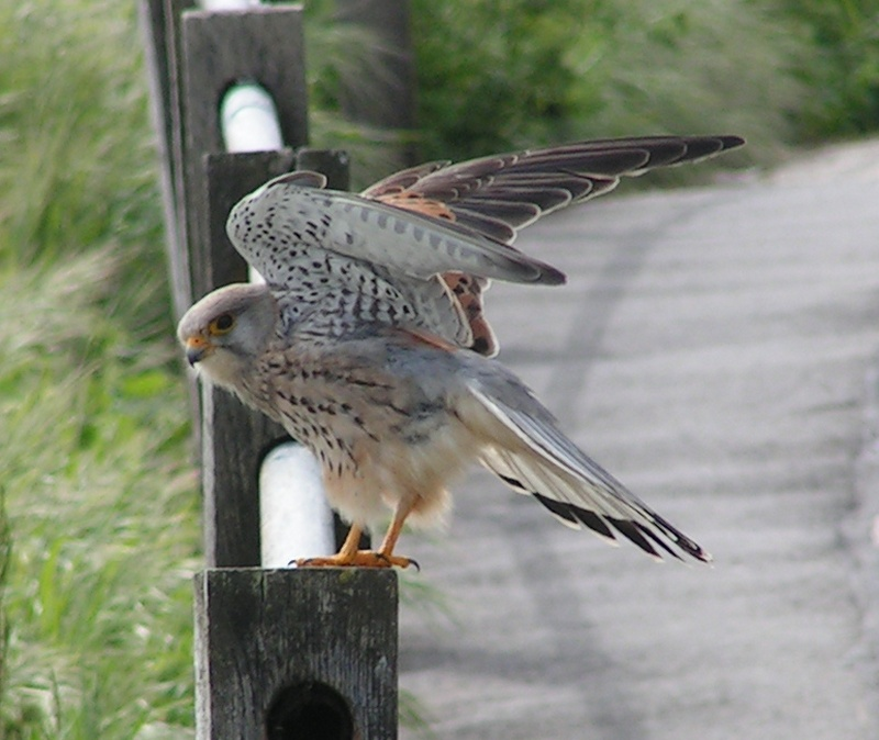 Common Kestrel. Photo by sannse, May 2004, England.